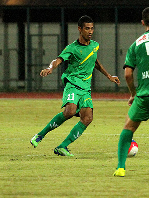 MidfielderTaufiq Rahmat turning out for Woodlands Wellington in a friendly match against SAFFC on 9th January 2013.